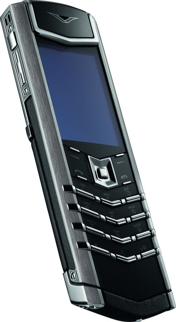 Vertu Signature in stainless steel